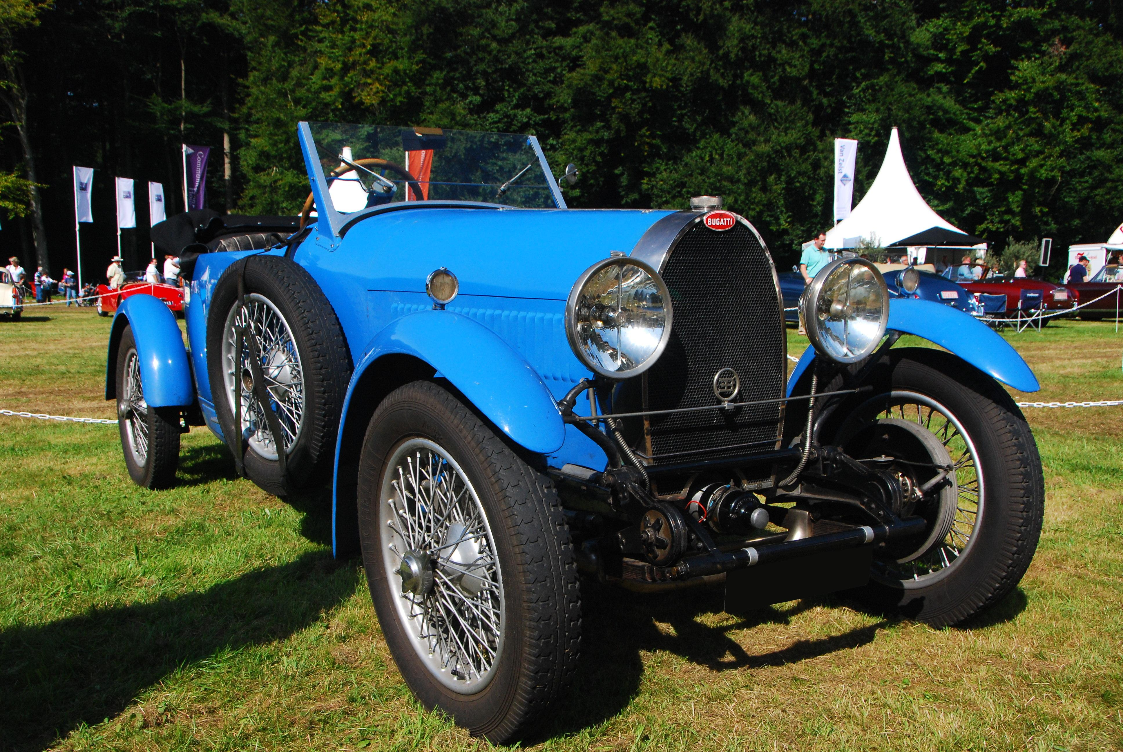 Bugatti 44 seen during Concours d'Elegance 2008, Apeldoorn (NL).